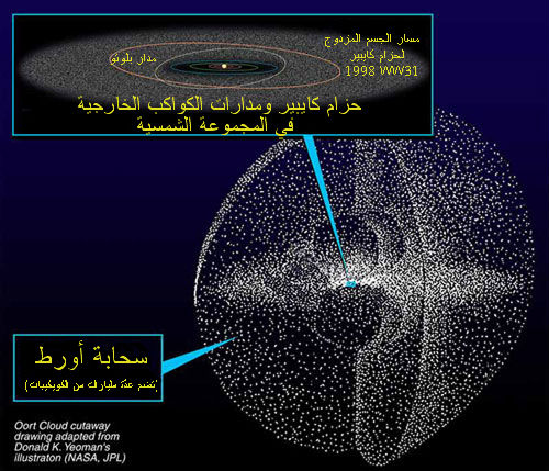 Note: See the version numbered to create or enhance one translation. If you can, help make this description accessible to all by translating it into other languages. – Thanks!